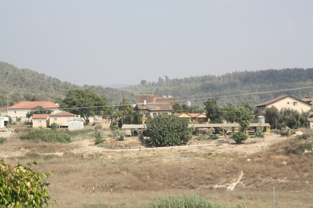 Taoz